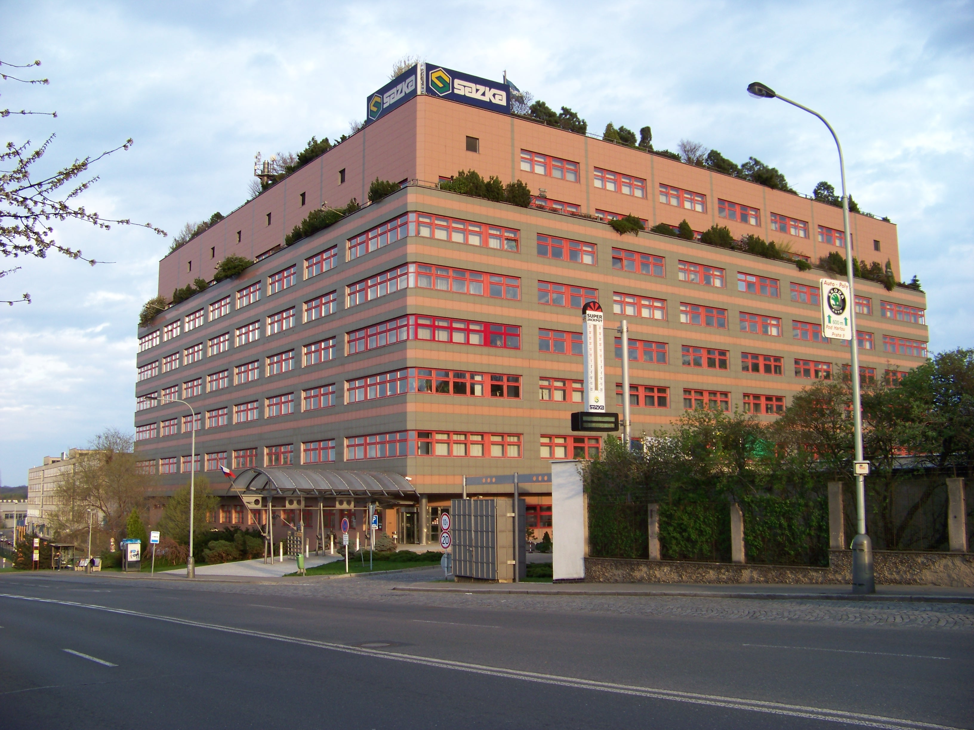 Prague-Vysočany, the Czech Republic. K Žižkovu street, Sazka building. - OpenStreetMap (Info)